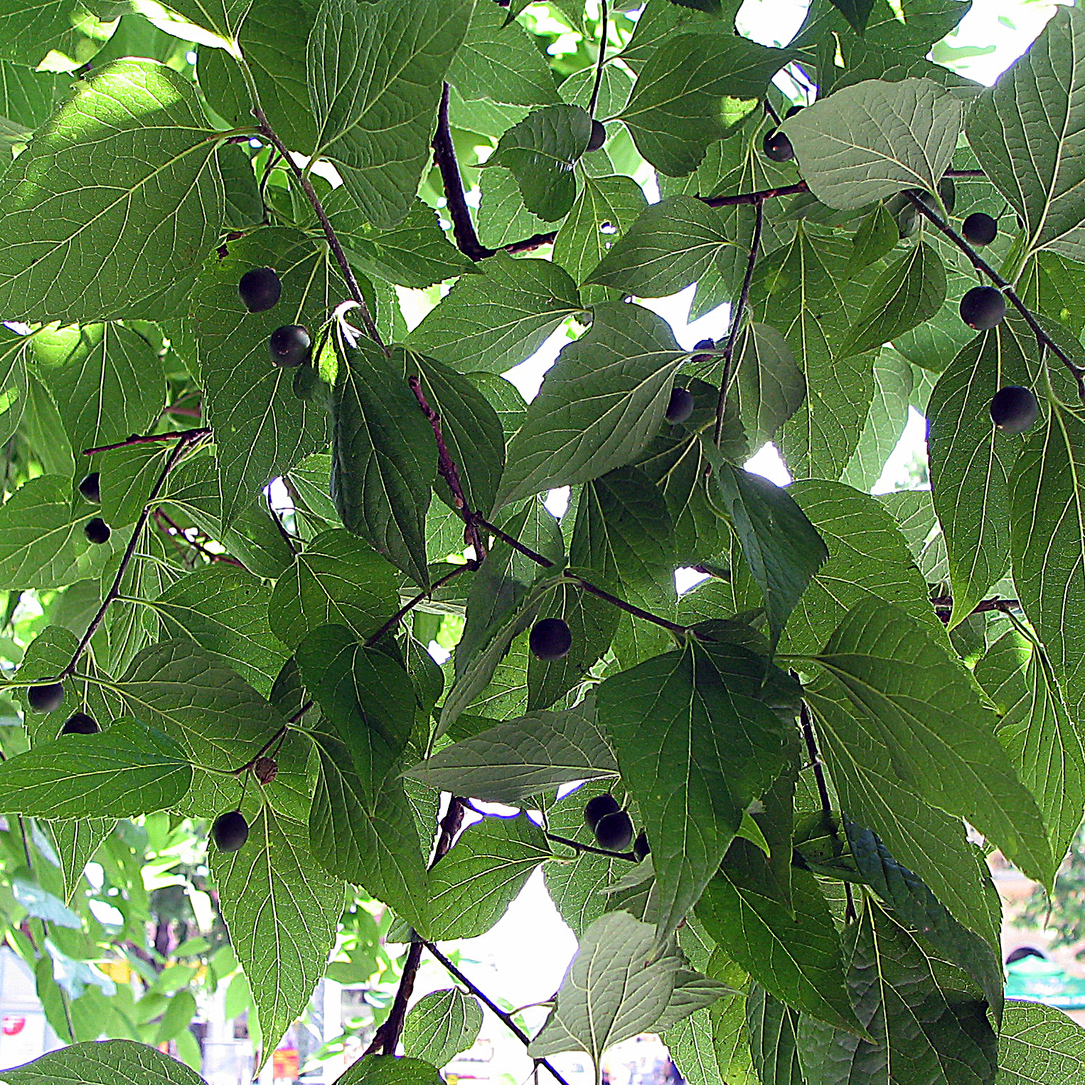 Leaves and fruits of Celtis occidentalis